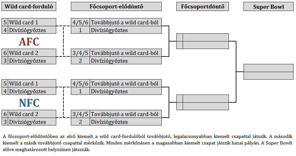 NFL playoff tree in hungarian language